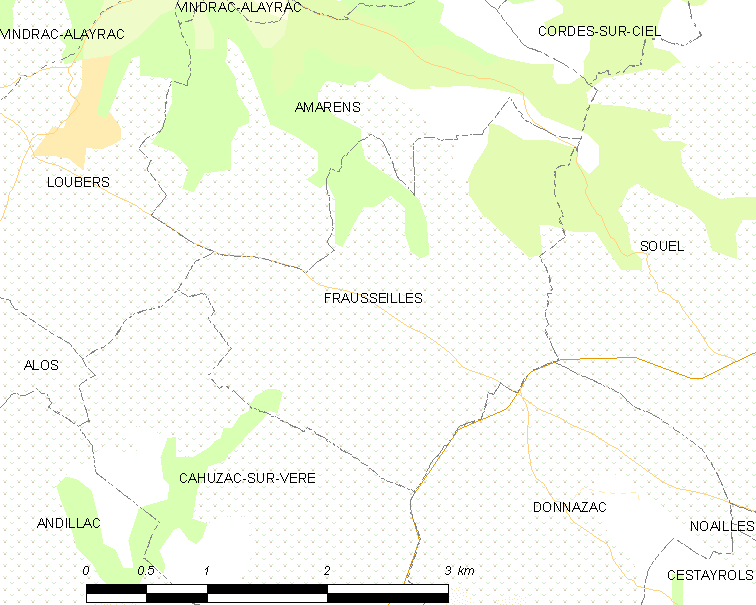 Map of French municipality Frausseilles